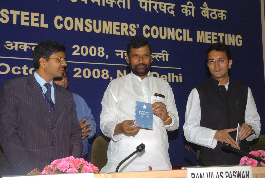 The Minister for Chemicals & Fertilizers and Steel, Shri Ram Vilas Paswan releasing the Warehouse Telephone Directory at the 22nd National Steel Consumers Council Meeting in New Delhi on October 4, 2008. The Minister of State for Steel, Shri Jitin Prasada is also seen in the picture